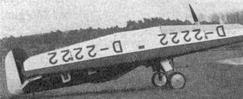 Darmstadt D-22 photo from L'Aerophile Salon 1932